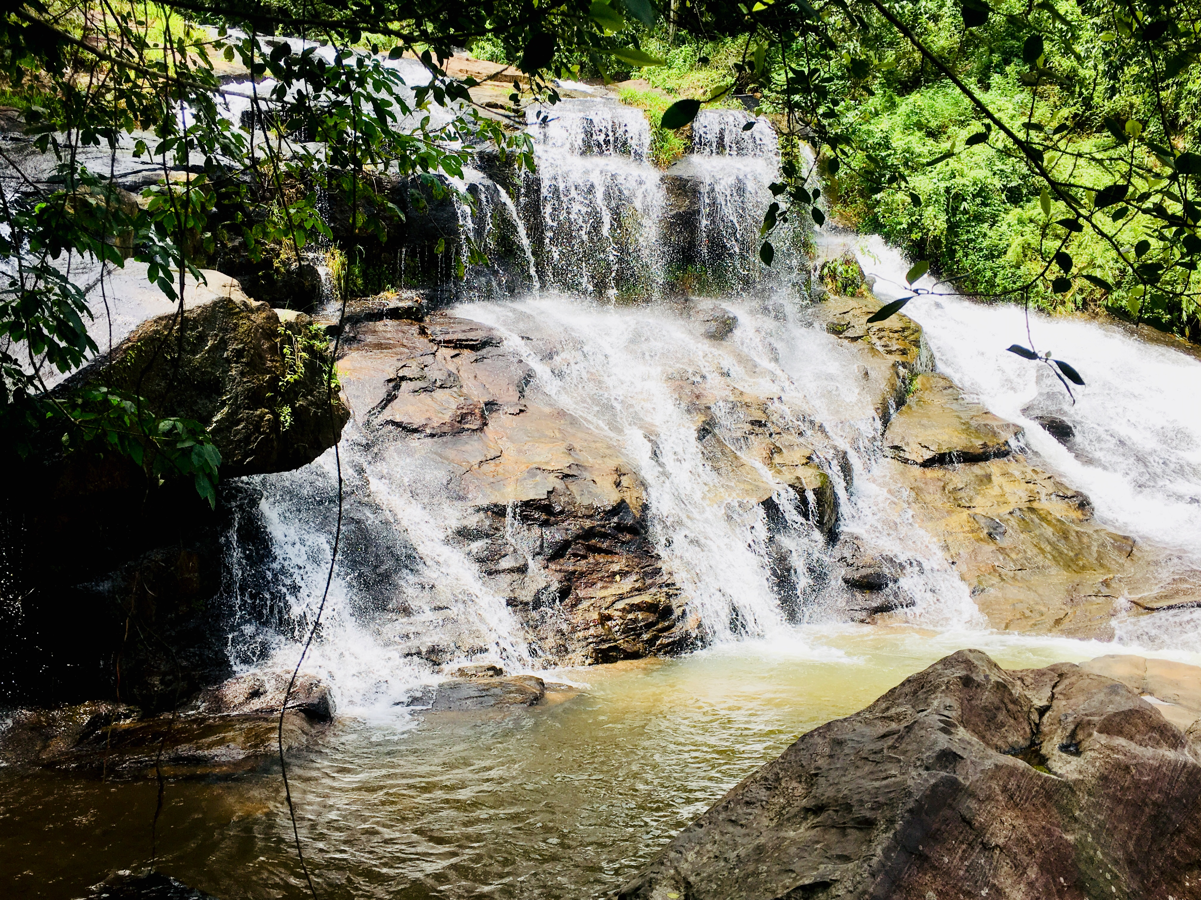 This place is very beautiful and rare to find this place. This place is full of mother of nature’s beauty .